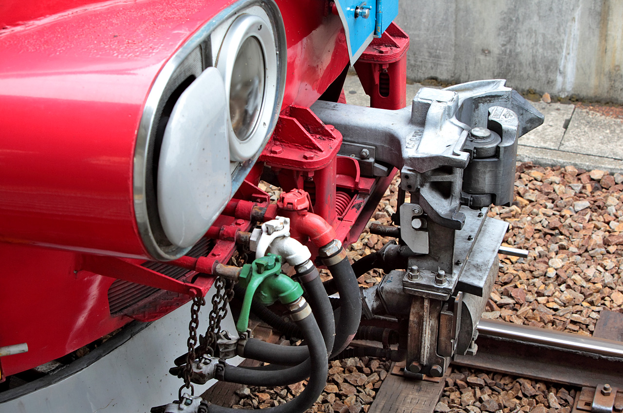 The details of Meitetsu Panorama Car 7000 series EMU ( Mo 7041 ), at Higashi-Okazaki Stn.